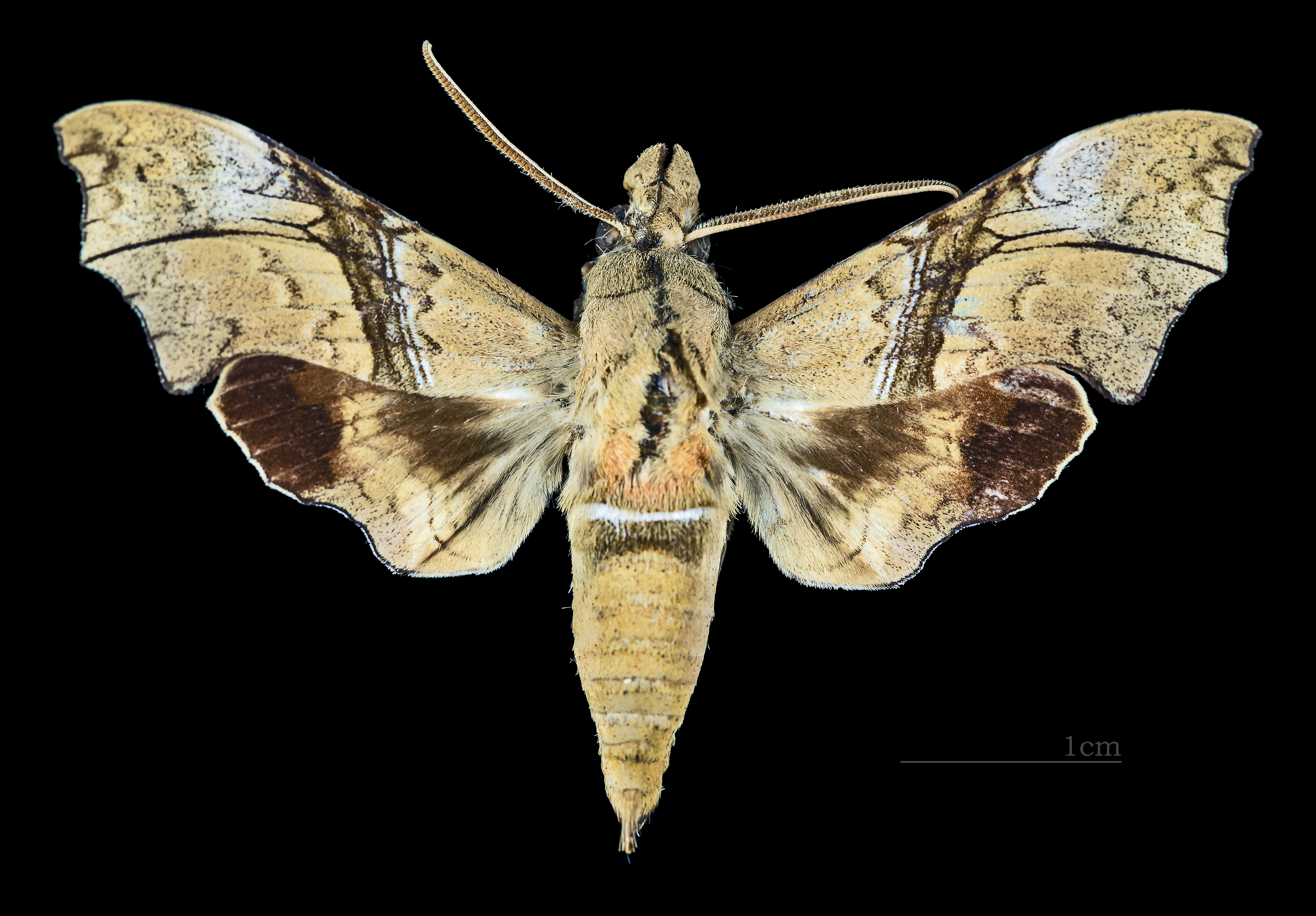 Aleuron iphis - Dorsal side